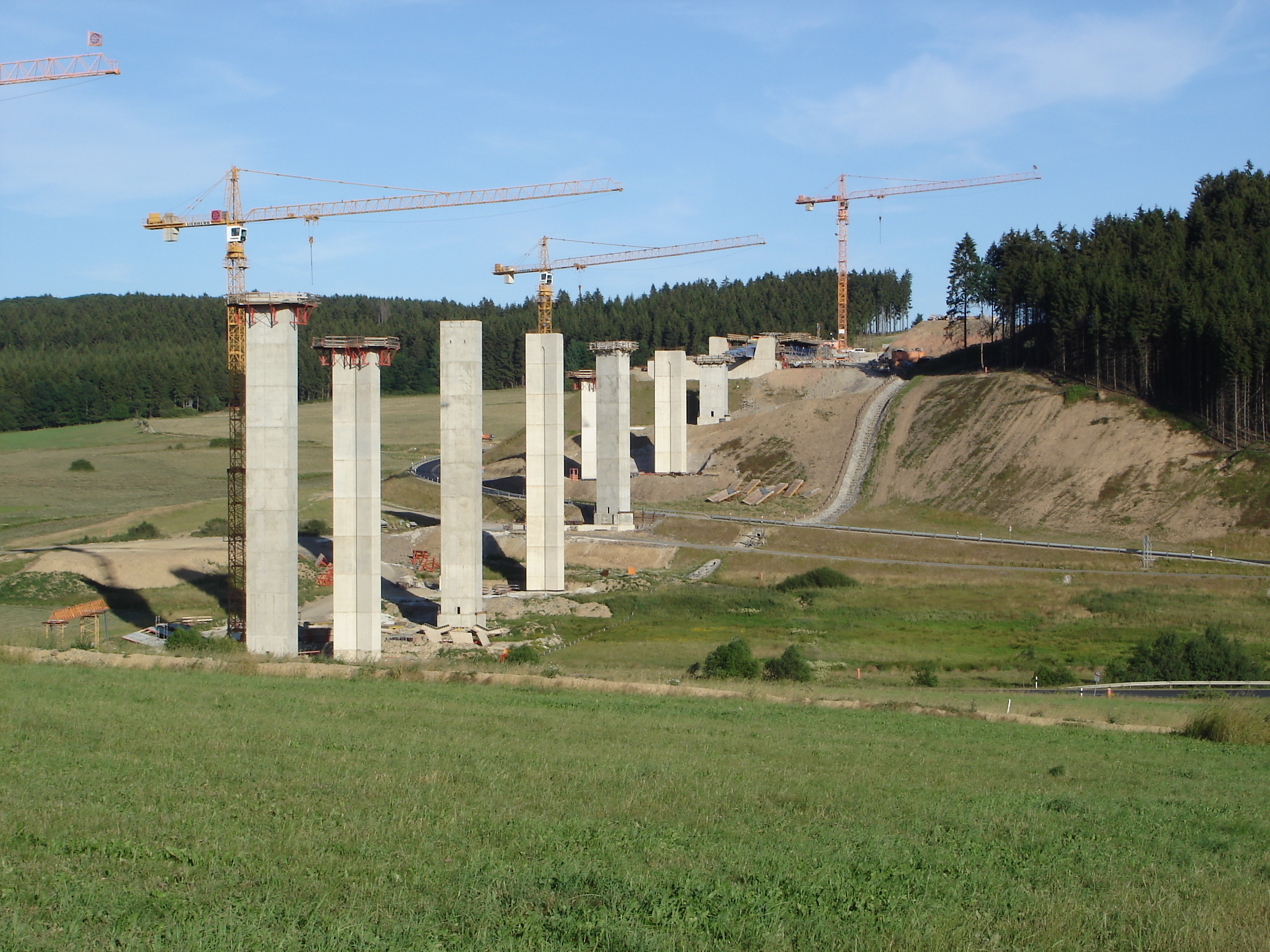 bridge building for Autobahn A1 near Daun; more precisely, a bridge crossing the L46 between Rengen and Nerdlen